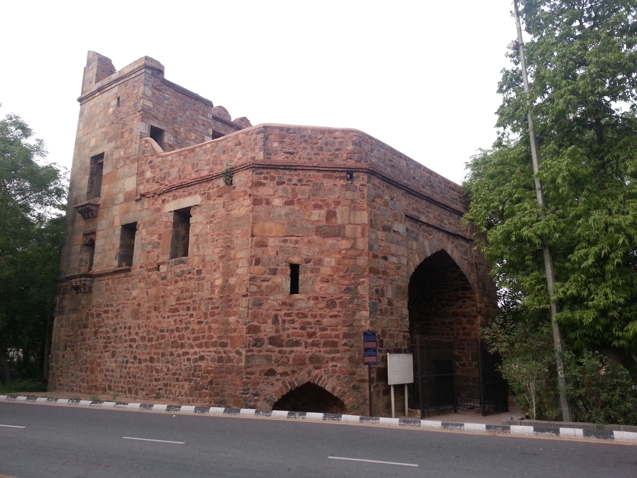 Image of bloody gate as seen from the main gate of Maulana Azad Medical College.